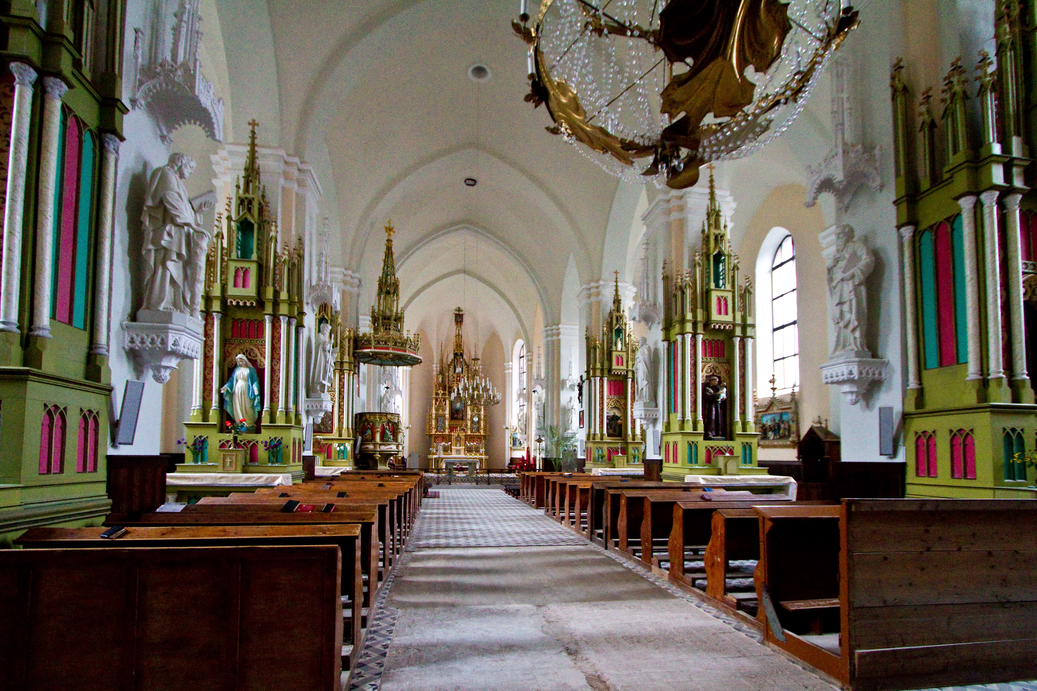 Catholic church of the Assumption of the Blessed Virgin Mary in Miory. Viciebsk province, Belarus.